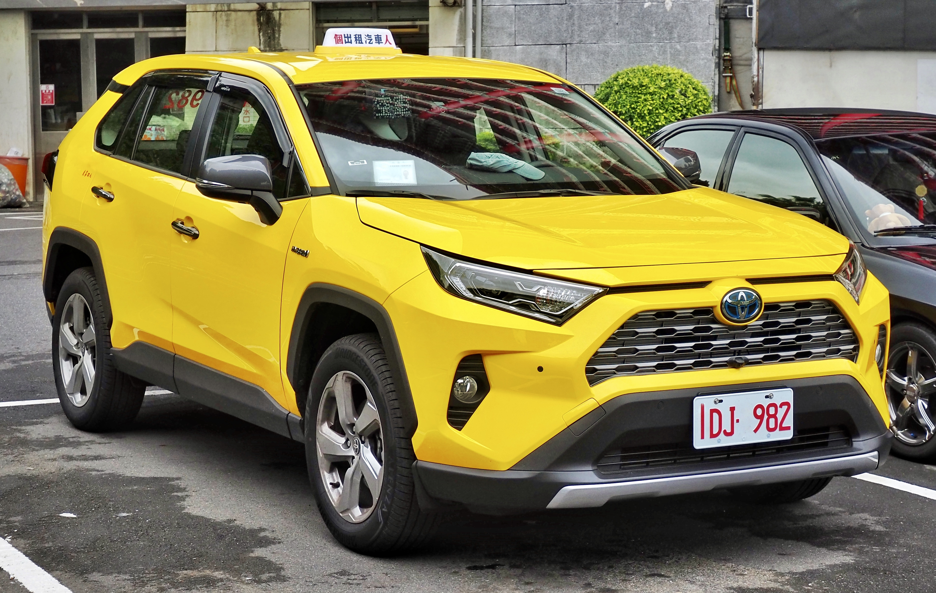 A 2019 Toyota RAV4 taxi photographed in Zhongshan District, Taipei, Taiwan.